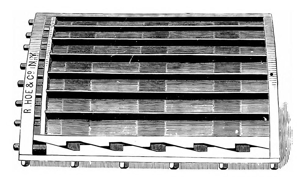 A "type turtle" for Hoe's type-revolving machine, an early rotary printing press developed used in the mid-19th century. The "turtle" used a special wedge-shaped form of otherwise-traditional movable type to make the curved formes, rather than the curved stereotype plates that replaced it in the late 19th-century